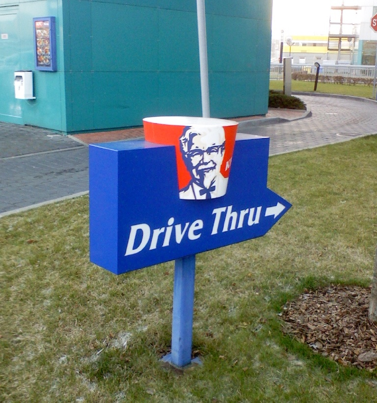 KFC Drive thru sign